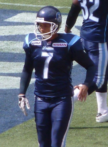 Justin Medlock of the Toronto Argonauts